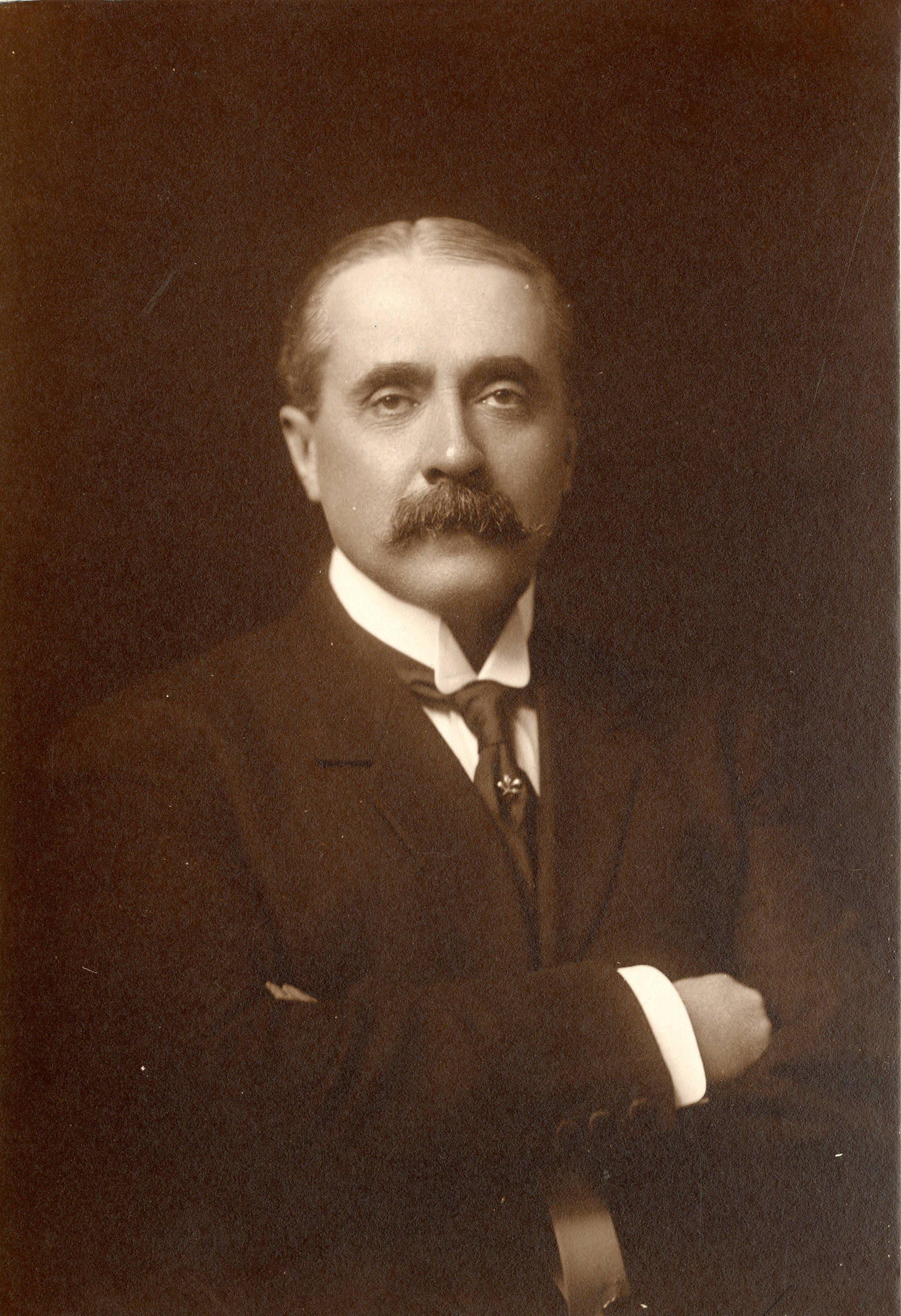 Herbert Kelcey, stage actor Subjects: actors